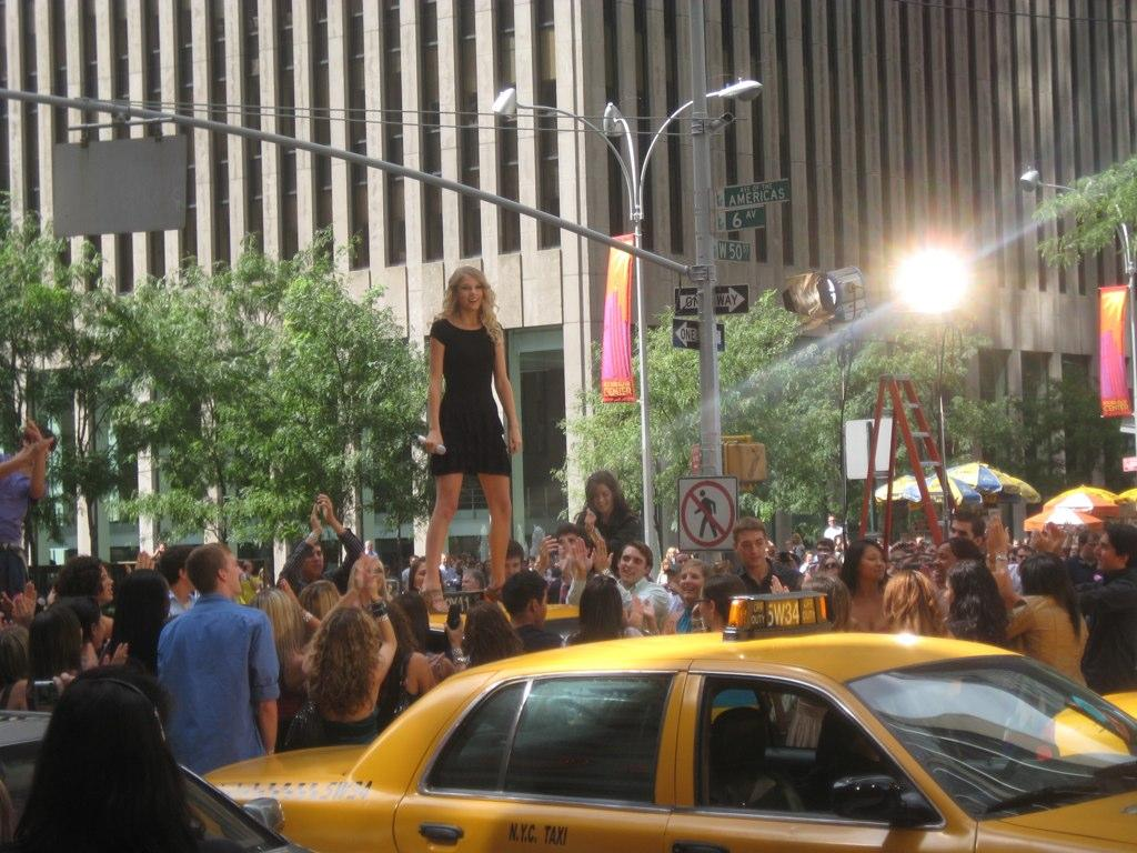 Taylor Swift performing at the 2009 MTV Video Music Awards.